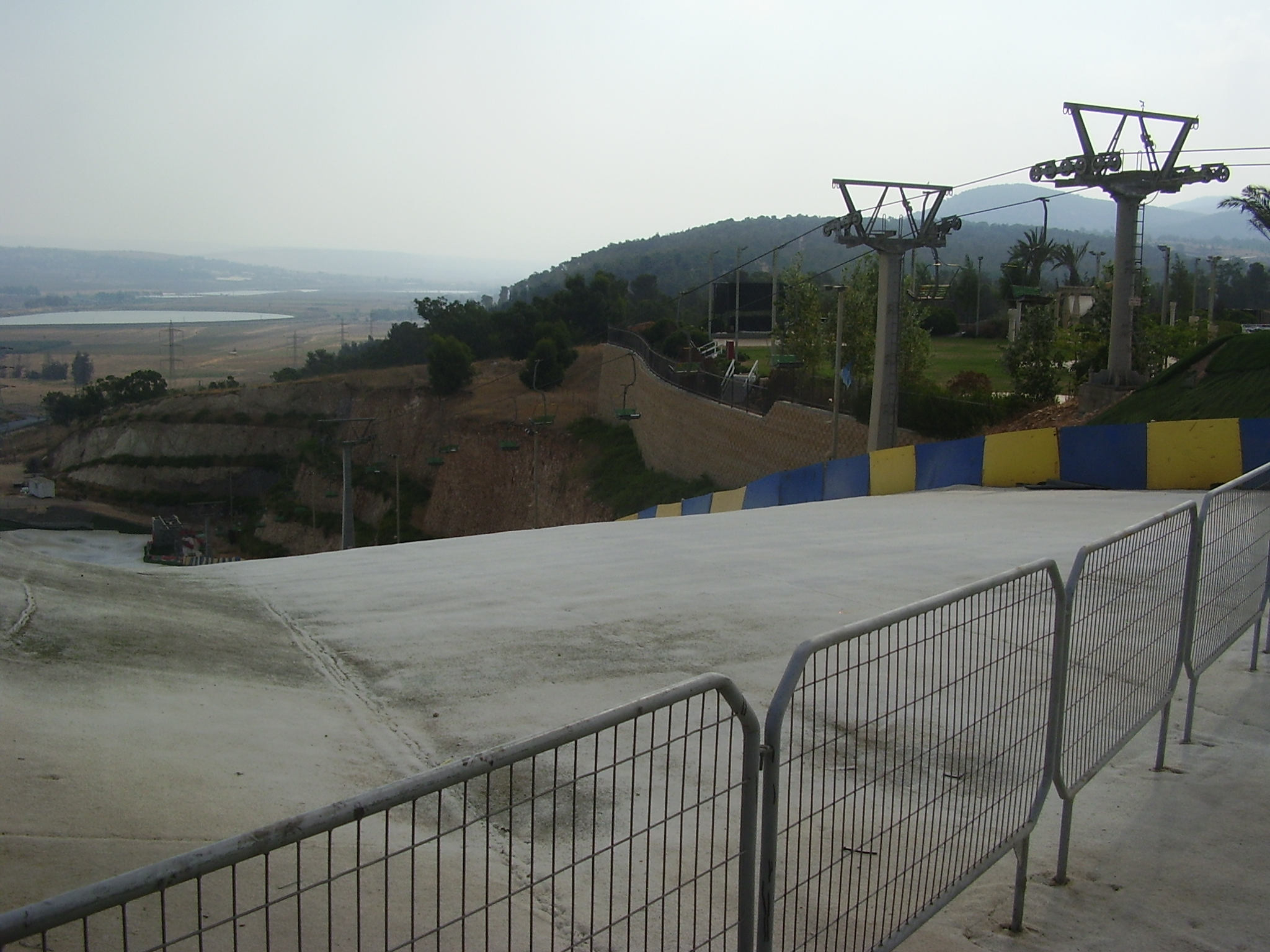 Ski site in Gilboa